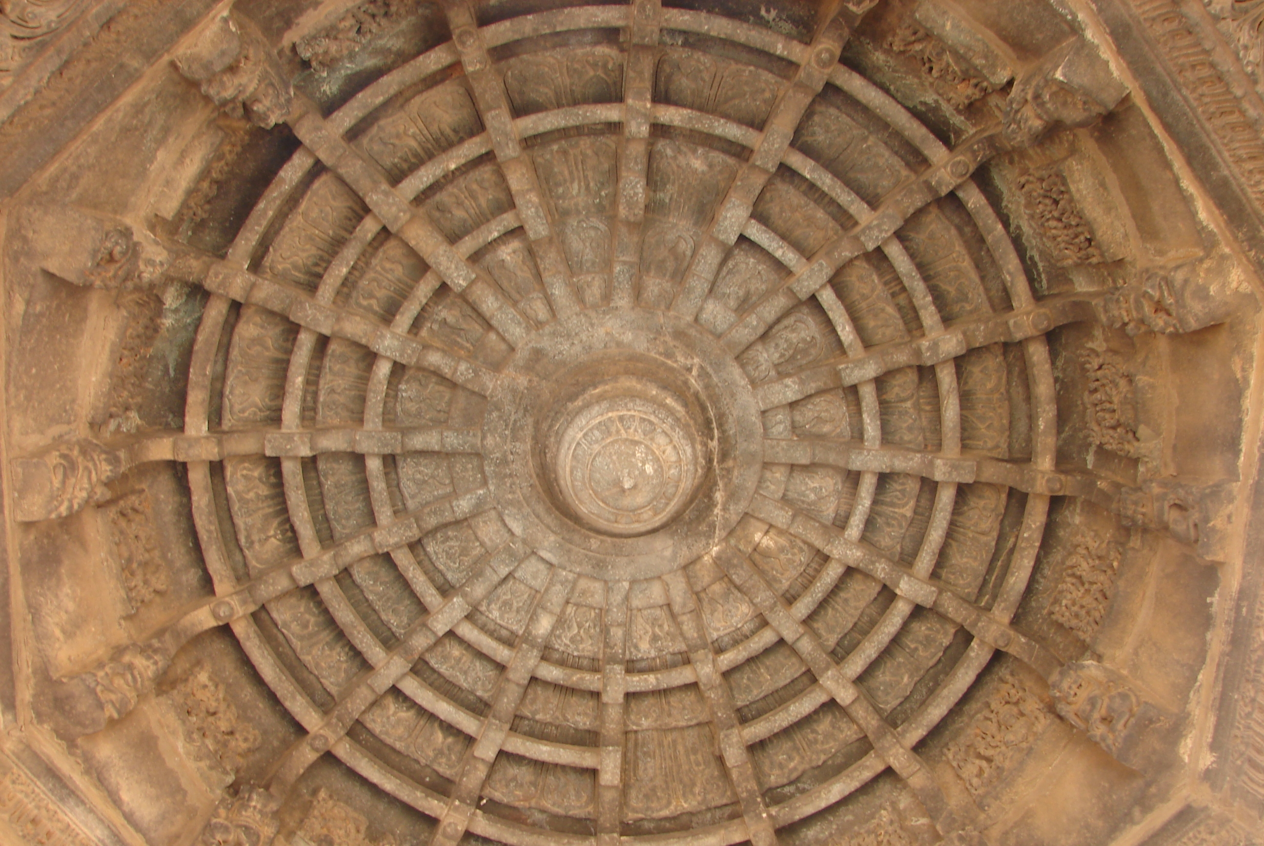 Mahadeva temple in Itagi, Koppal district, Karnataka state, India